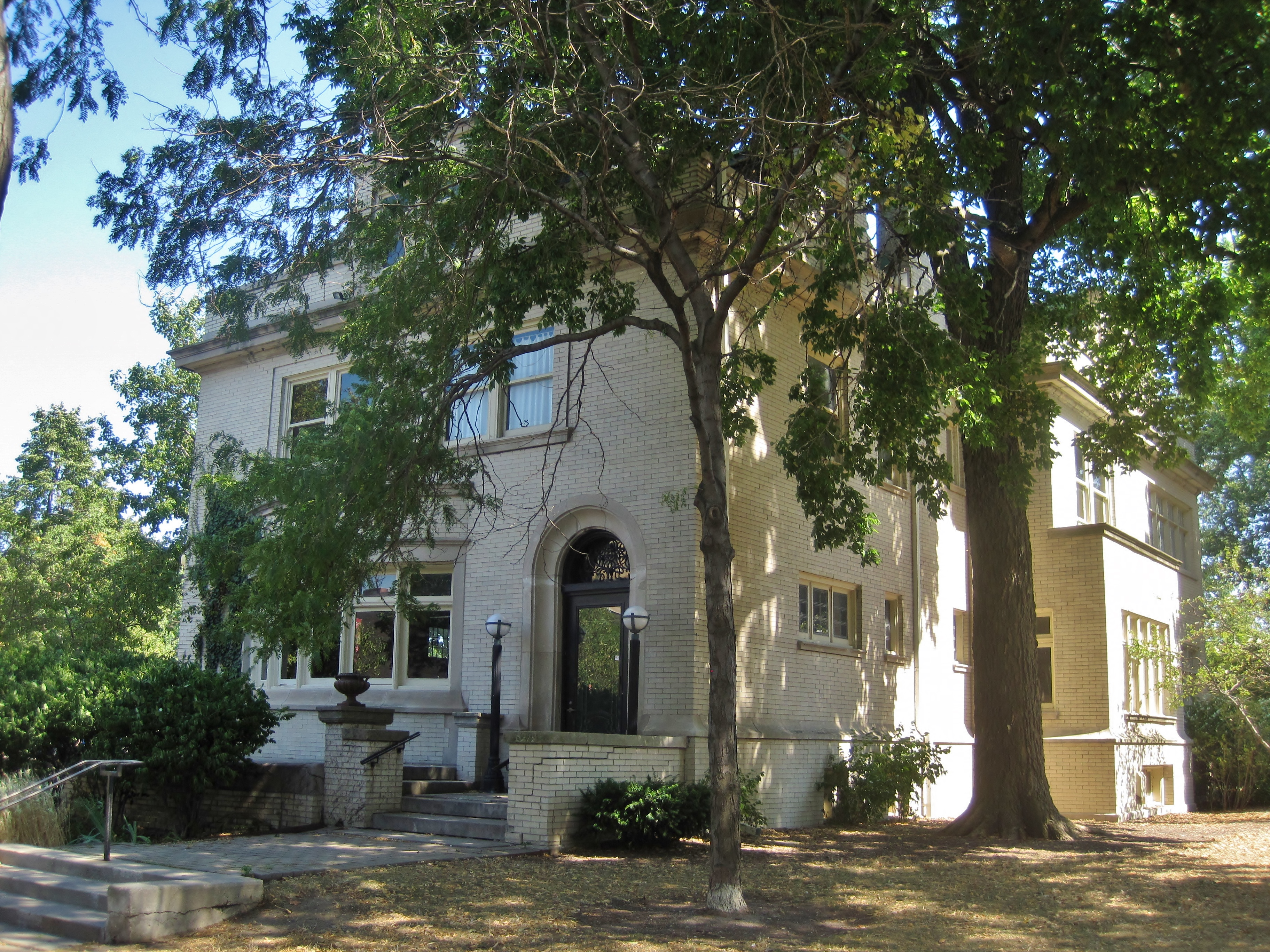 Samuel Gunder House in Berger Park, Chicago (1910). Gunder was born in Indiana and became president of the Pozzinni Pharmaceutical Company. He lived in this house until 1919.